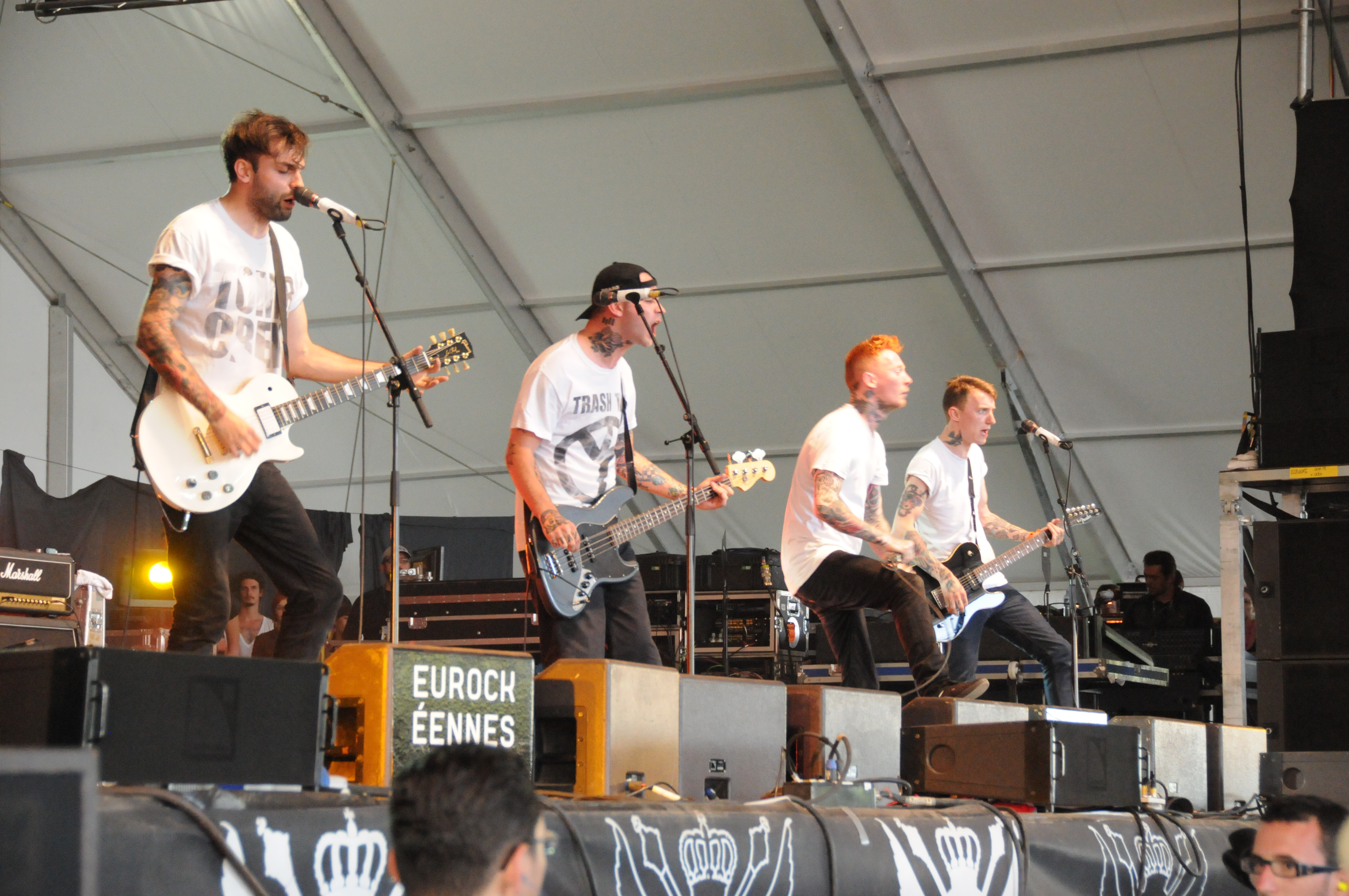 Personality rights warningAlthough this work is freely licensed or in the public domain, the person(s) shown may have rights that legally restrict certain re-uses unless those depicted consent to such uses. In these cases, a model release or other evidence of consent could protect you from infringement claims.